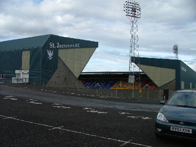 St Johnstone Football Club.